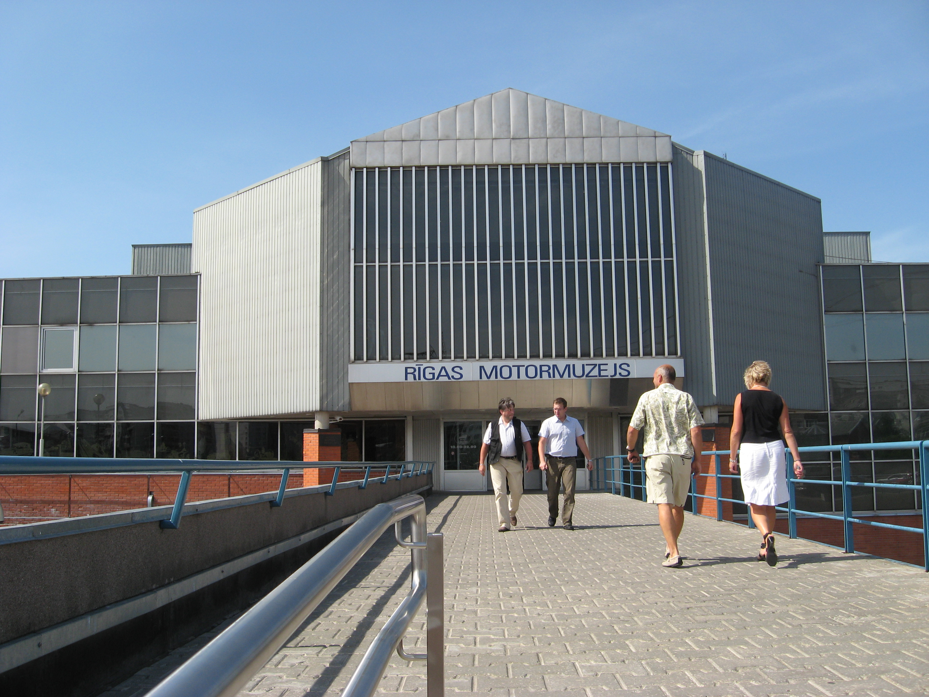 Riga Motor Museum